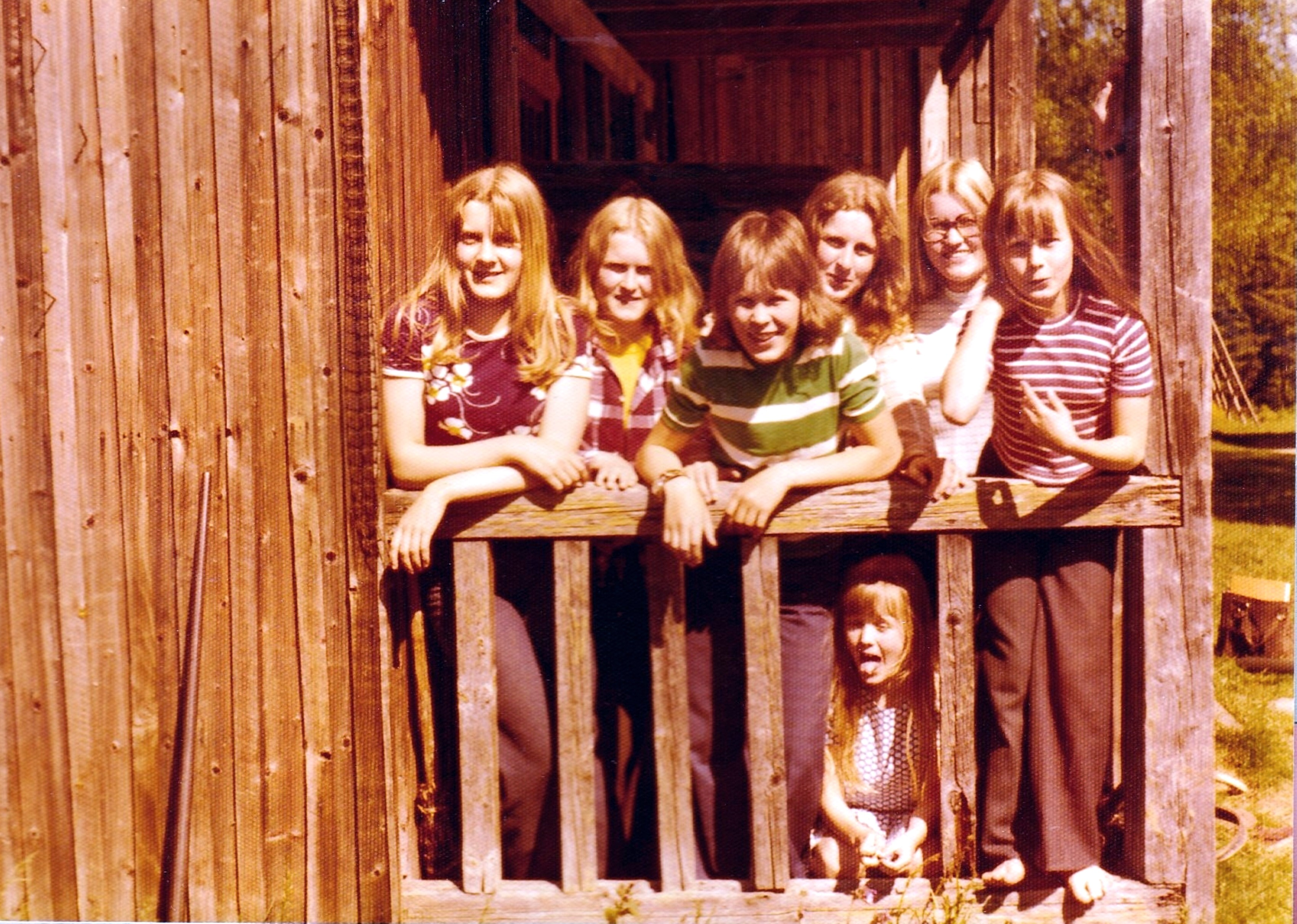 The 7 children of the Kangas Family. From left Liisa, Maija, Kalle, Kerttu, Helvi, Anna-Liisa. Below Minna. Mäenperä, Multia, Middle-Finland.